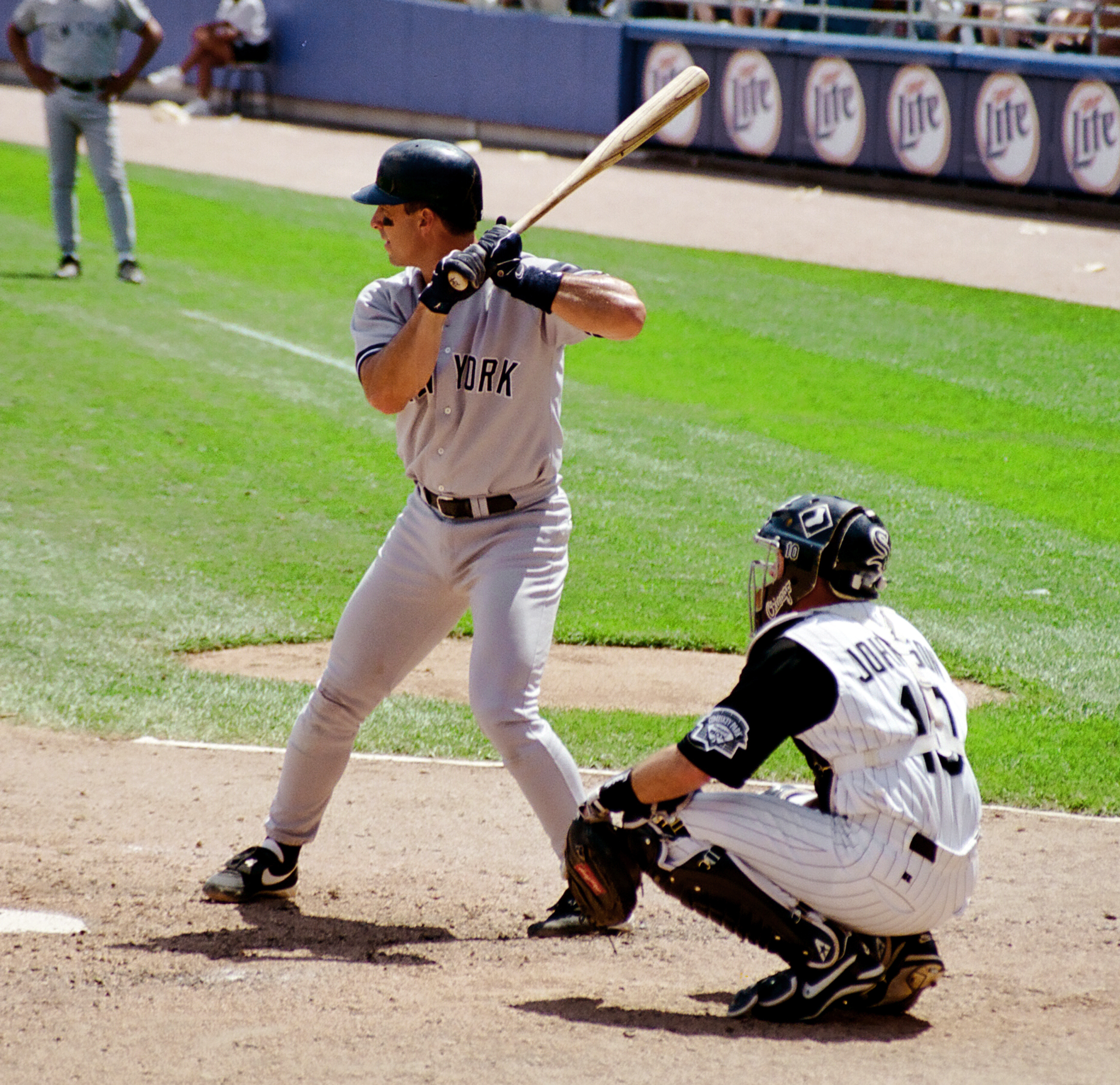 Tino Martinez bats at New Comiskey Park, 1999.